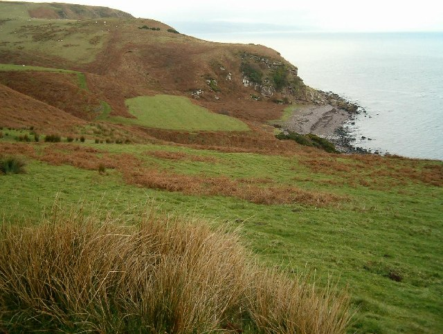 Coast near Achinhoan